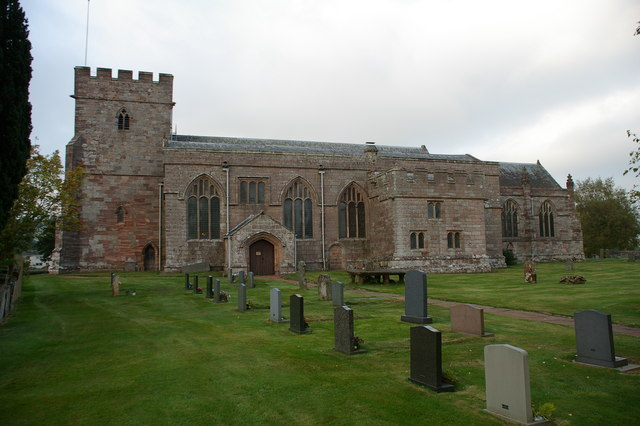 St Andrew's Church, Greystoke, near to Greystoke, Cumbria, Great Britain.